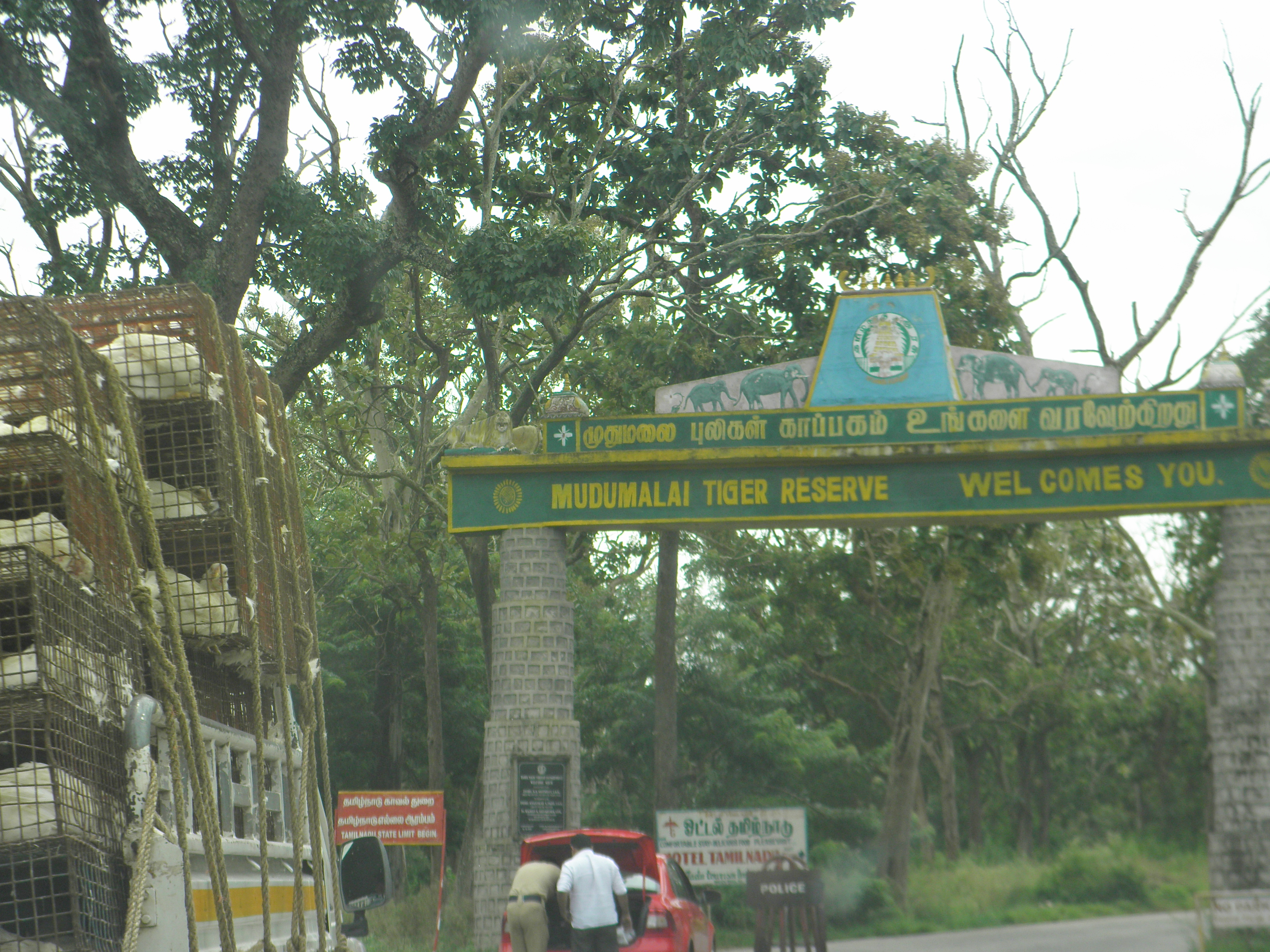 Mudumalai Tiger reserve